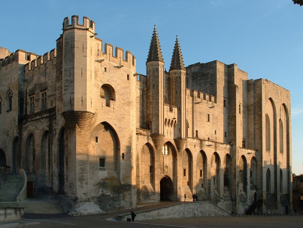 Front of Pope's Palace in Avignon.